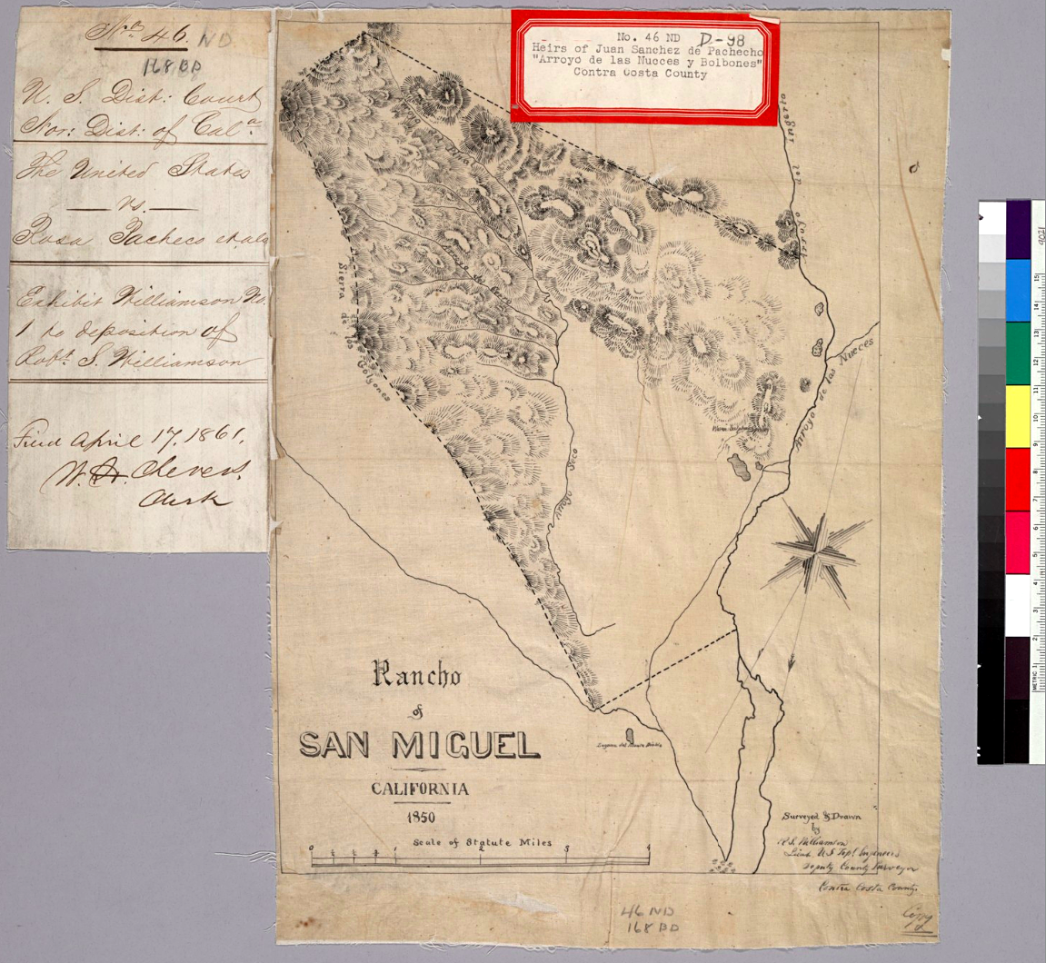 Title: Rancho of San Miguel, California, 1850 : [i.e., Arroyo de las Nueces y Bolbones] / surveyed & drawn by R.S. Williamson, Lieut., U.S. Top'l. Engineers, Deputy County Surveyor, Contra Costa County Description: From: U.S. District Court. California, Northern District. Land case 46 ND; land case map D-98 (Bancroft Library).Pen-and-ink on tracing paper.Shows drainage, boundaries, etc.Relief shown by hachures.4362 A75Oriented with north toward the lower left. Creator/Contributor: Williamson, R. S. (Robert Stockton), 1824-1882, author United States. District Court (California : Northern District). Land case. 46, Related Name Indexing Term Date: 1850 Contributing Institution: UC Berkeley, Bancroft Library